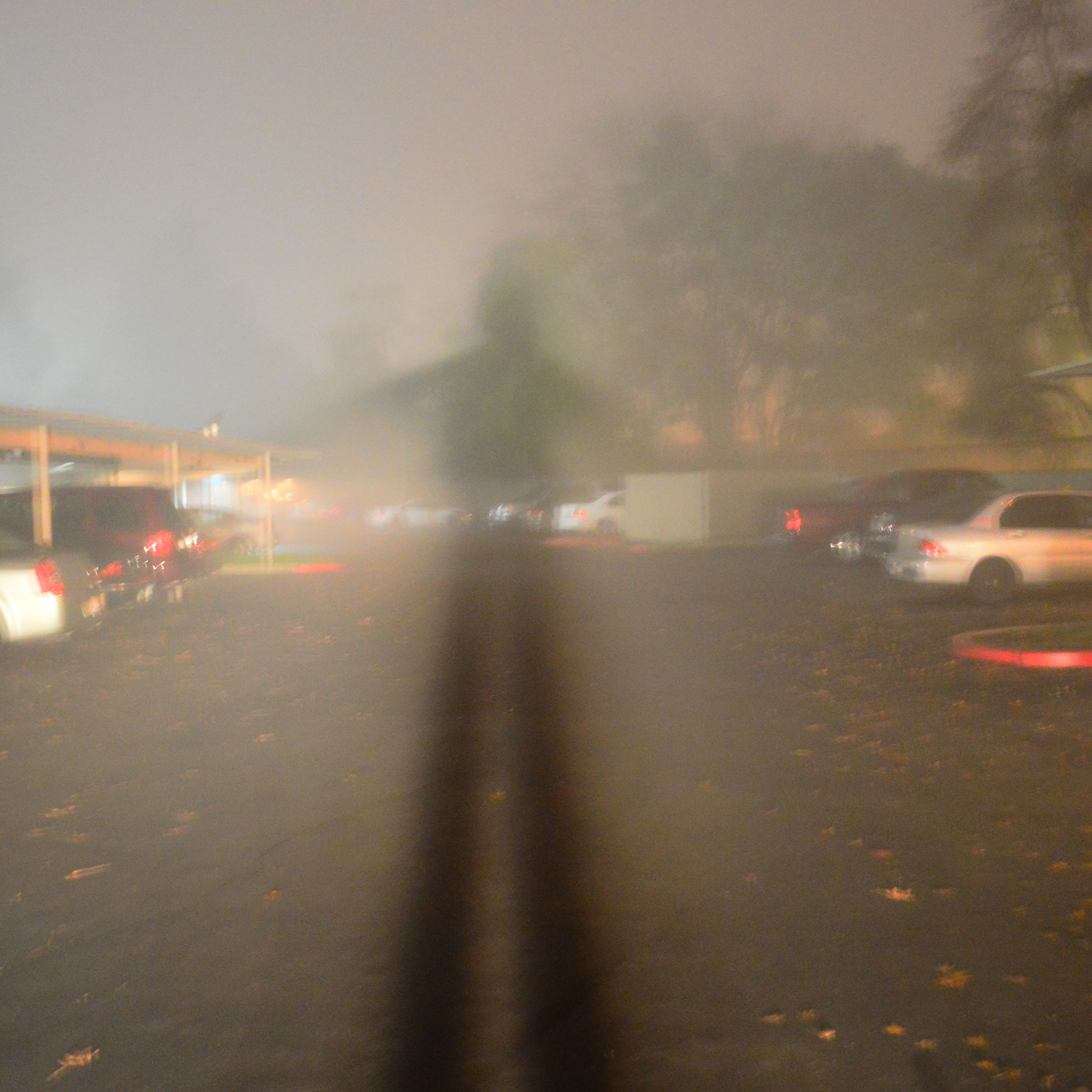 On an exceptionally foggy night, I parked my car at one end of the parking lot, facing into the lot, and covered one headlight with a floor mat. Standing before the uncovered light, I photographed the shadow that I was thus casting into the fog—a Brocken spectre.